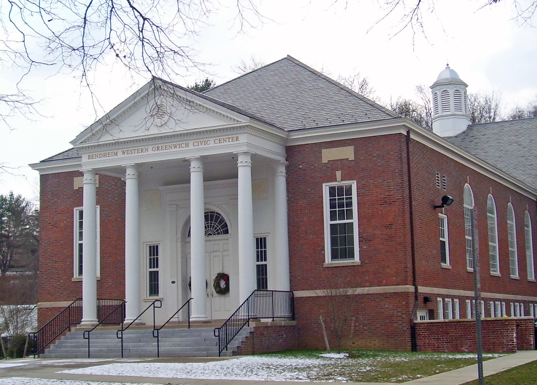 West Greenwich Civic Center, formerly Glenville School, in that community in Greenwich, CT, USA